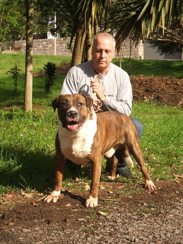 Pedro R.Dantas and the dog Pallus de Tasgard, a Brazilian Dogo. A brazilian dog breed